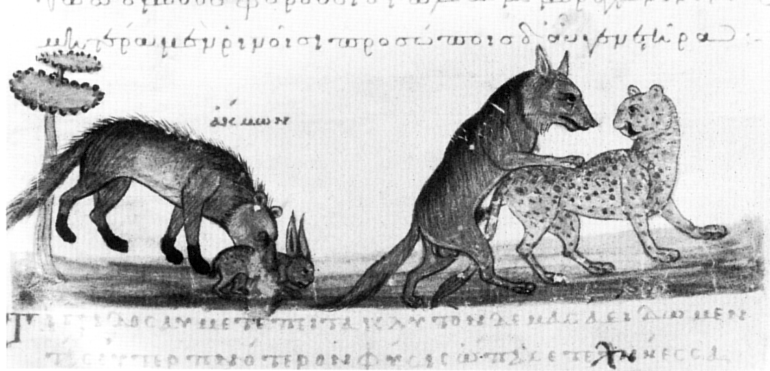 Mating of wolf and cheetah. Illustration from Oppian of Apamea Cynegetica. 10th century manuscript. Venice, Cod. Ven. Marc. Gr. Z 479, fol. 49v